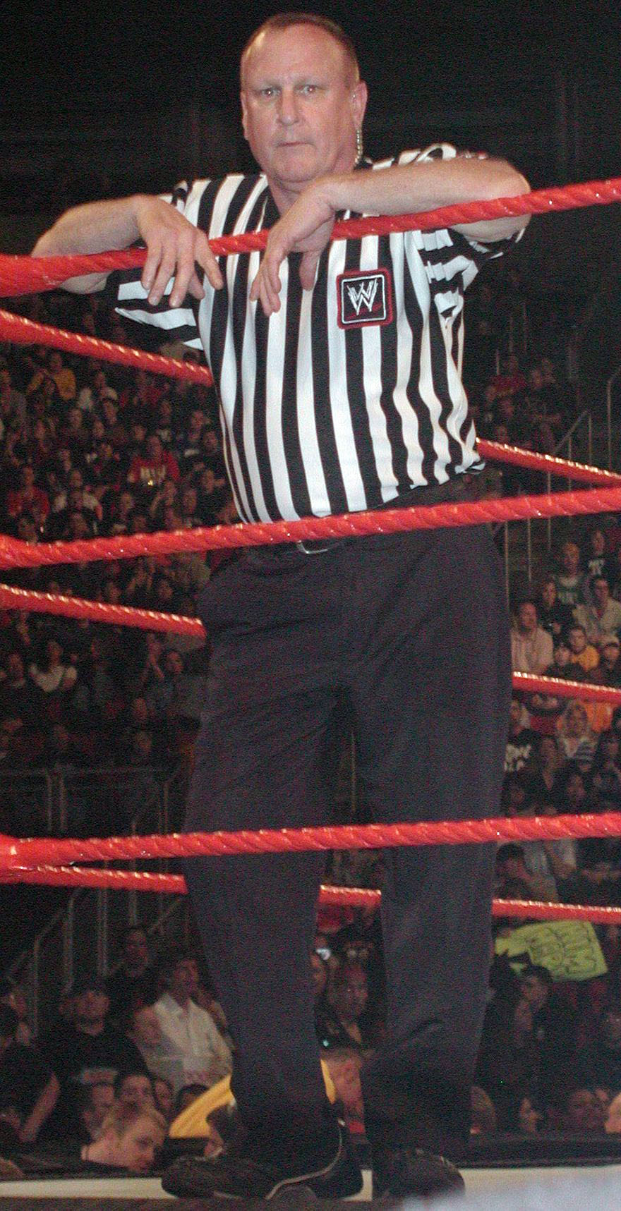 Earl Hebner on WWE Raw on March 31 2003 at the KeyArena in Seattle, WA.